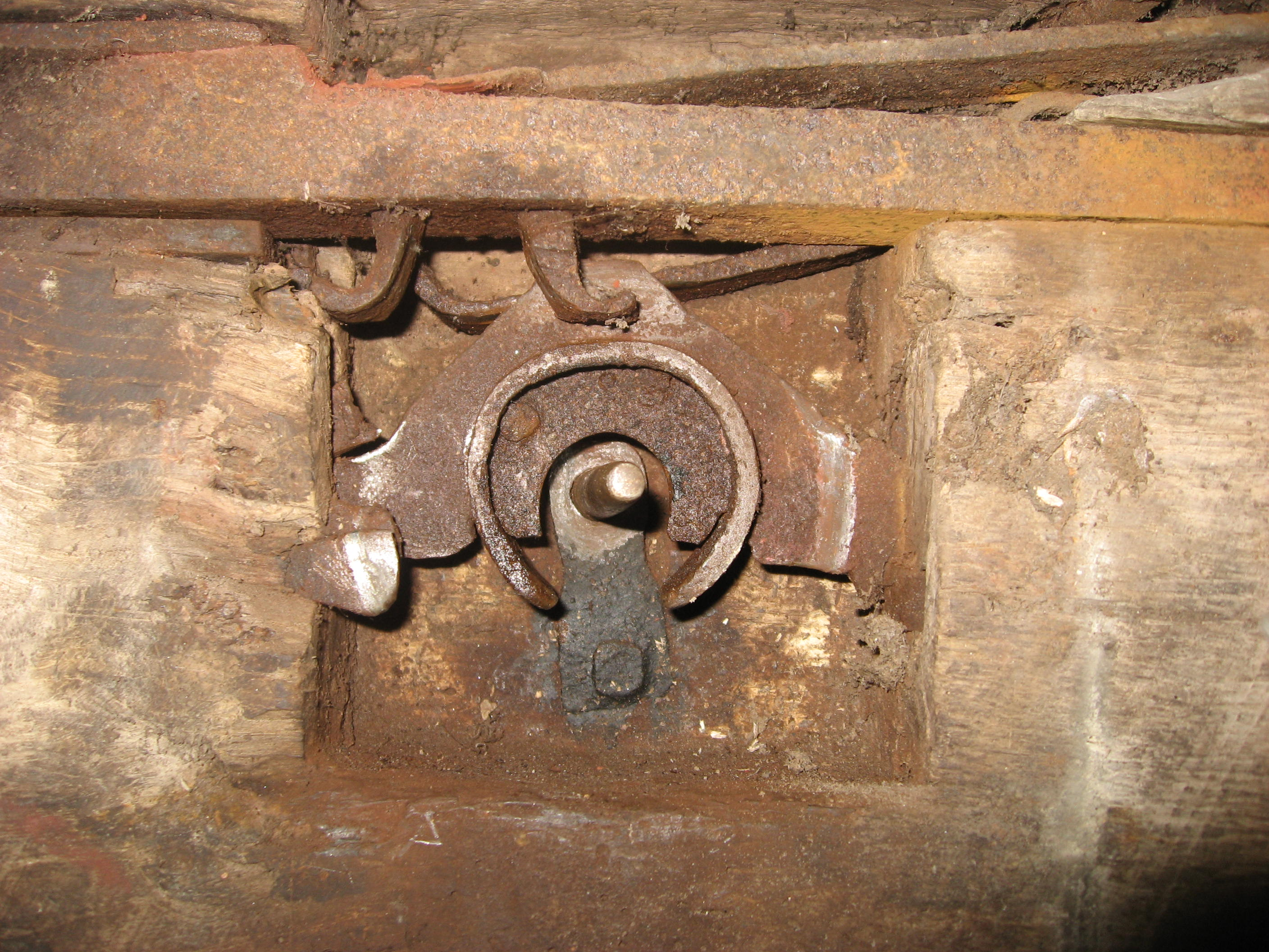 This is the lock for the main door at St Mary's Church, Burton, Wiltshire. It is a Banbury lock which is the earliest form of church lock. This type of lock is one in which the metal components of the lock are separately fitted into a block of wood which forms the frame.